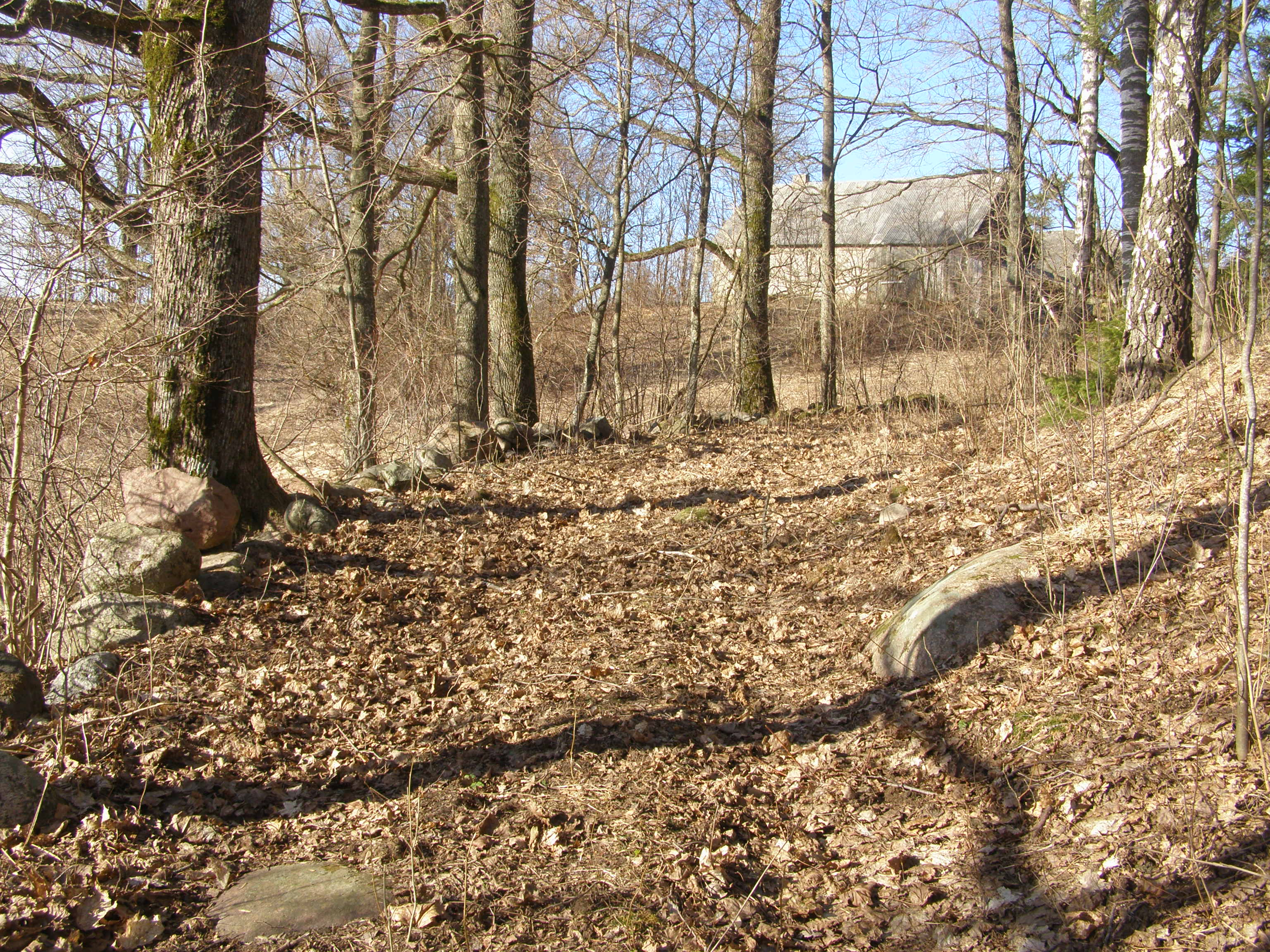 Alkas, Kretinga district, LithuaniaLietuvių: Alko kaimo senkelis, Kretingos rajonas, Lietuva